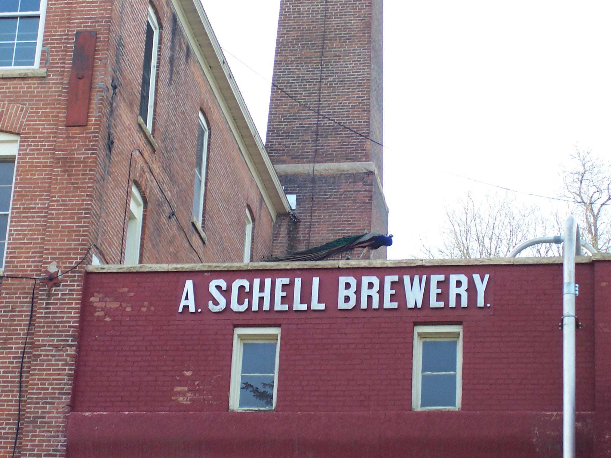 Picture taken by me of the sign on the historic August Schell Brewery building. Notice the peacock hanging around.